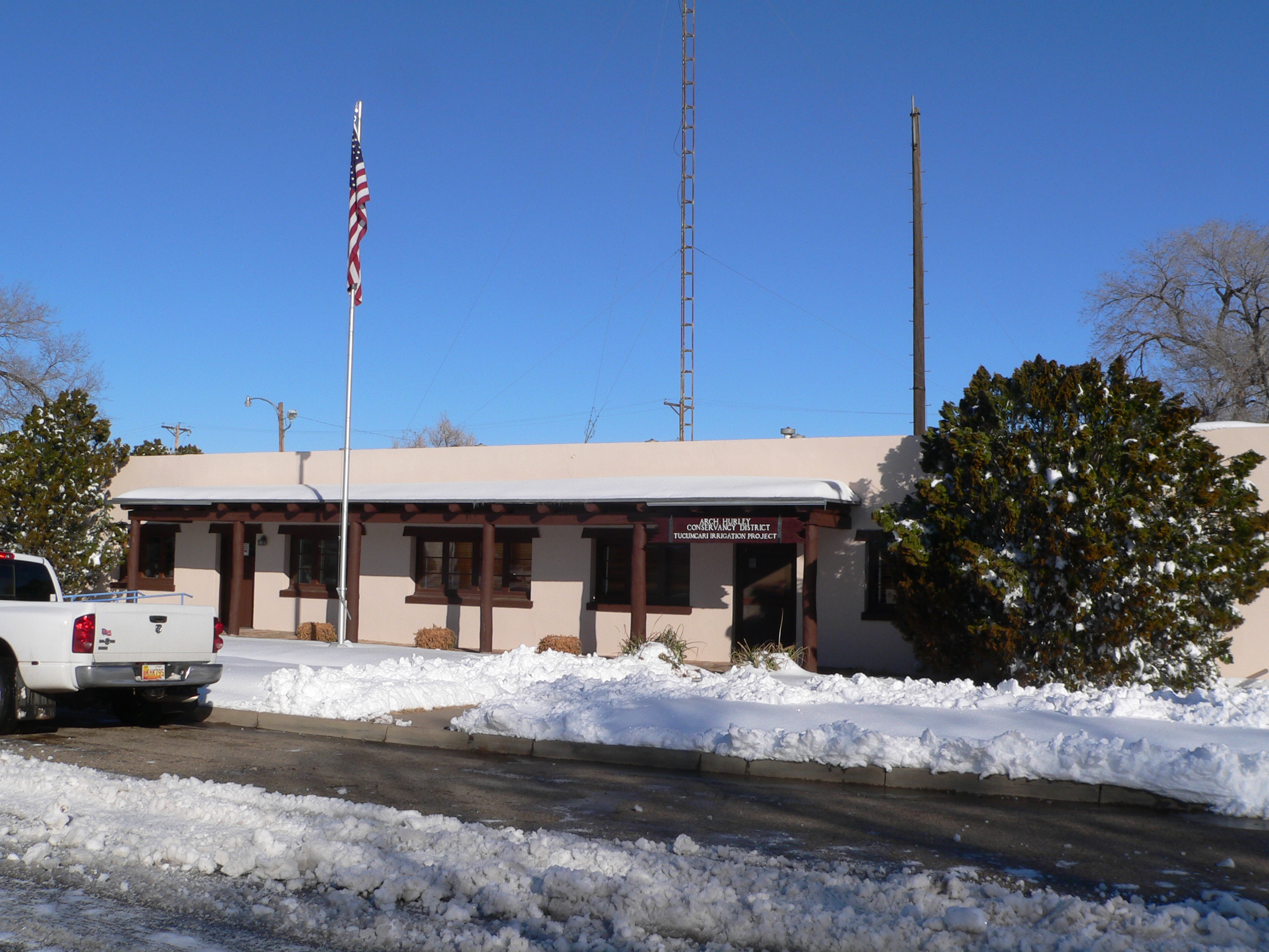 Arch Hurley Conservancy District Office Building at 101 E. High St., Tucumcari, New Mexico; seen from the southeast. The Pueblo style building is listed in the National Register of Historic Places.